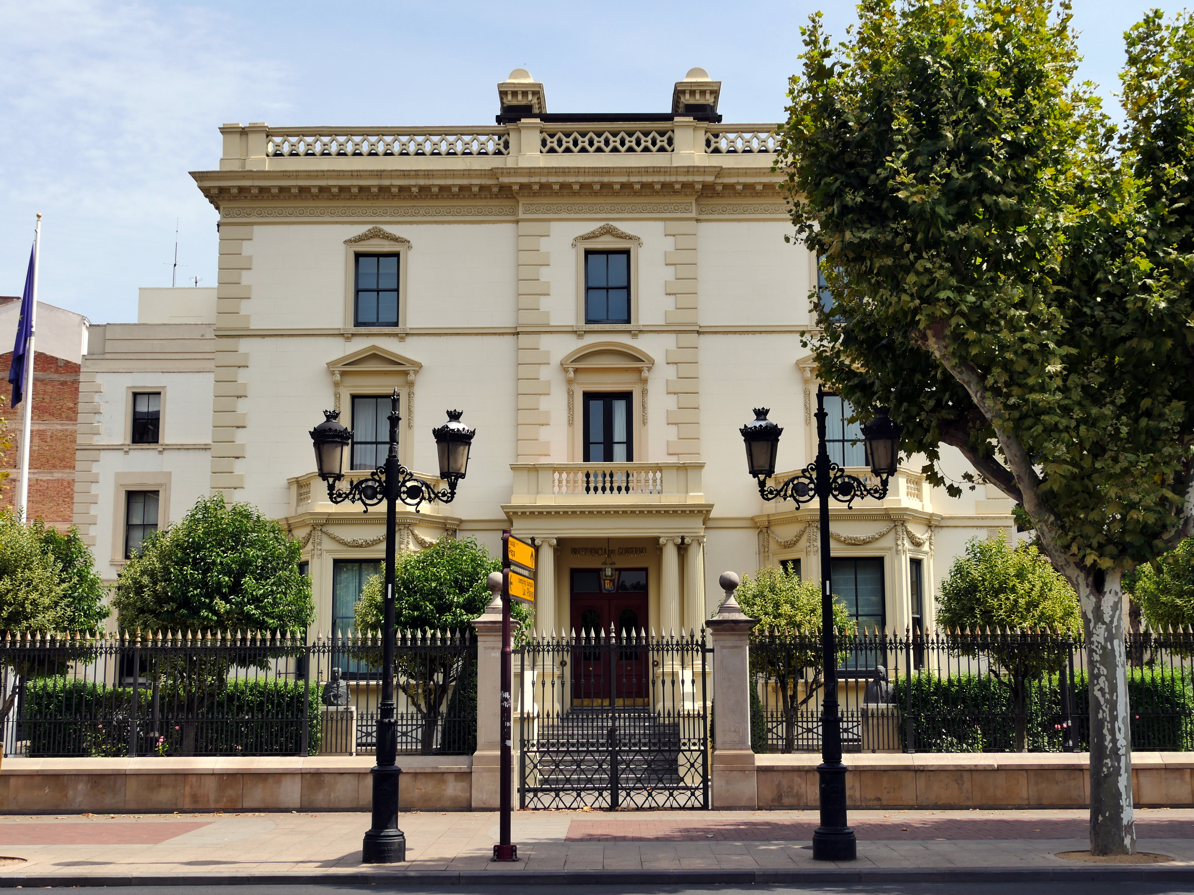 Front view of the Palace of the President of La Rioja (Presidencia de Gobierno) in Logroño, Spain. Located at Vara de Rey. 3. Former Diputación provincial of La Rioja.